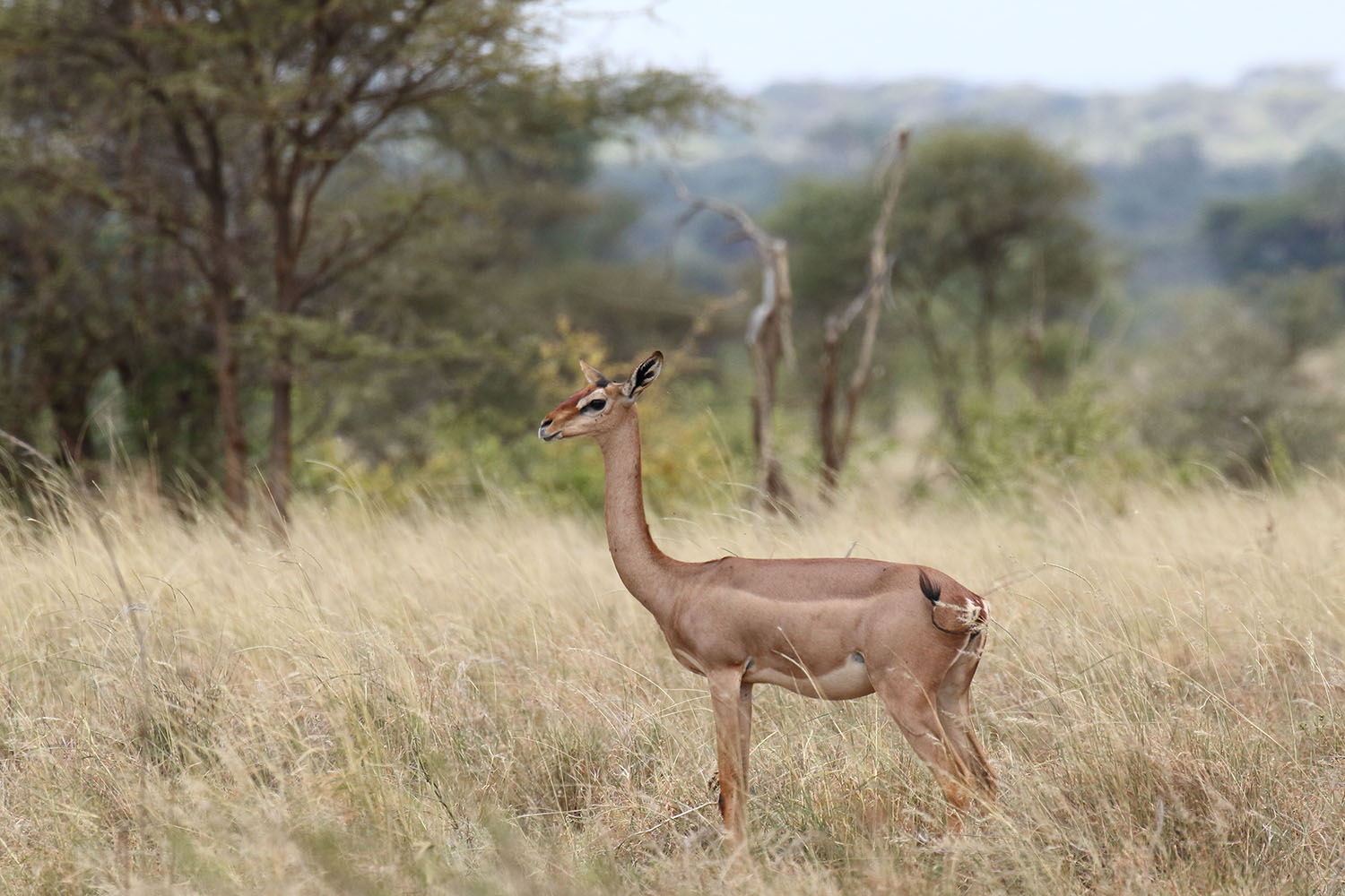 Gerenuk, Meru, Kenya